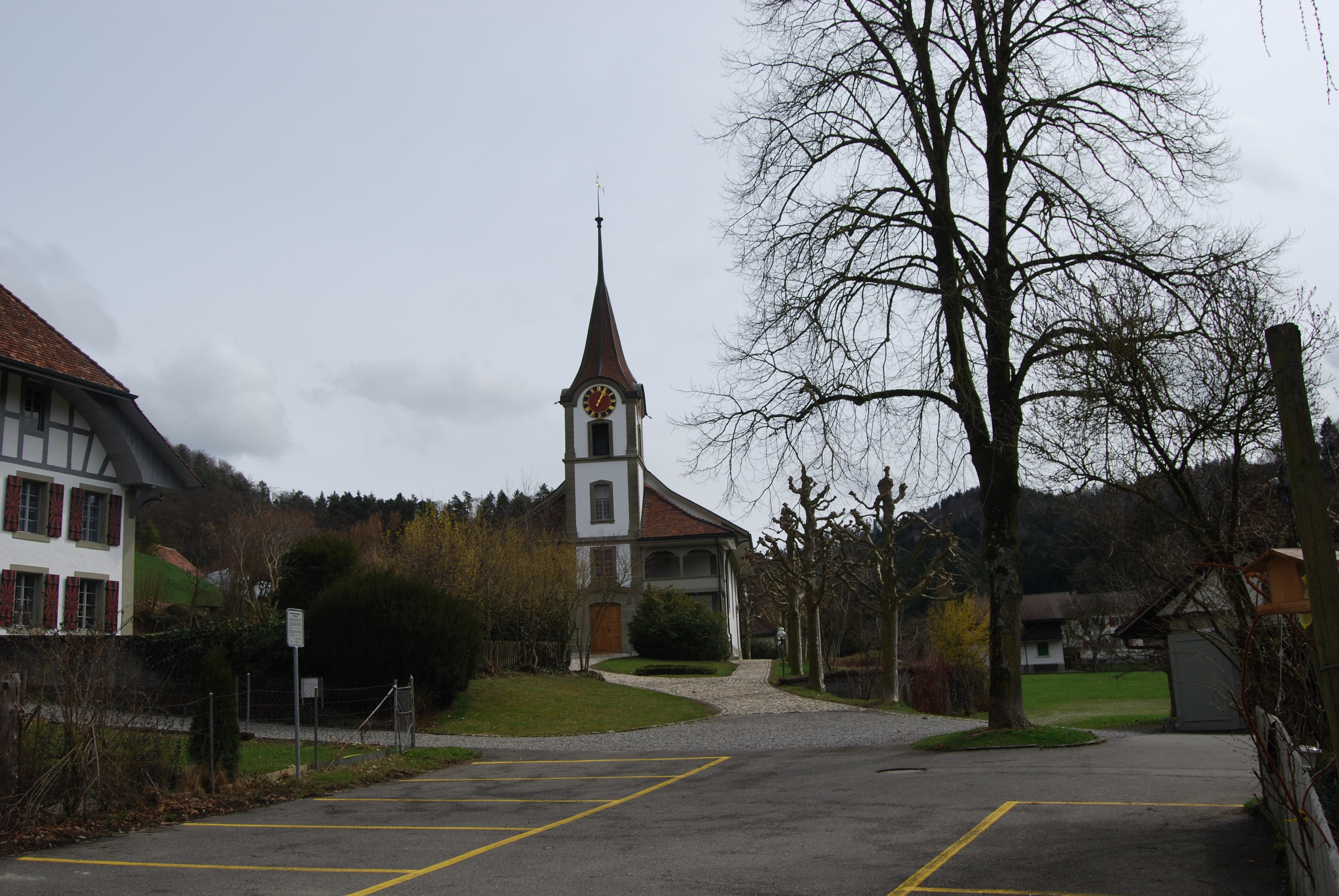 Church of Krauchthal, canton of Bern, SwitzerlandEsperanto: Preĝejo de Krauchthal, Kantono Berno, Svislando